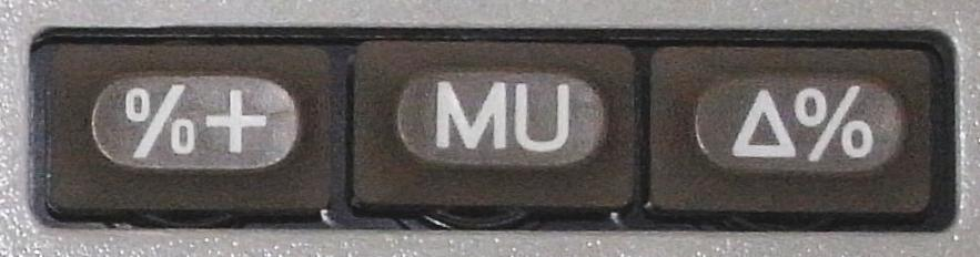 Part (upper right corner) of the keyboard of a desktop calculator (AEG Olympia CPD 5212 A, produced 1987)